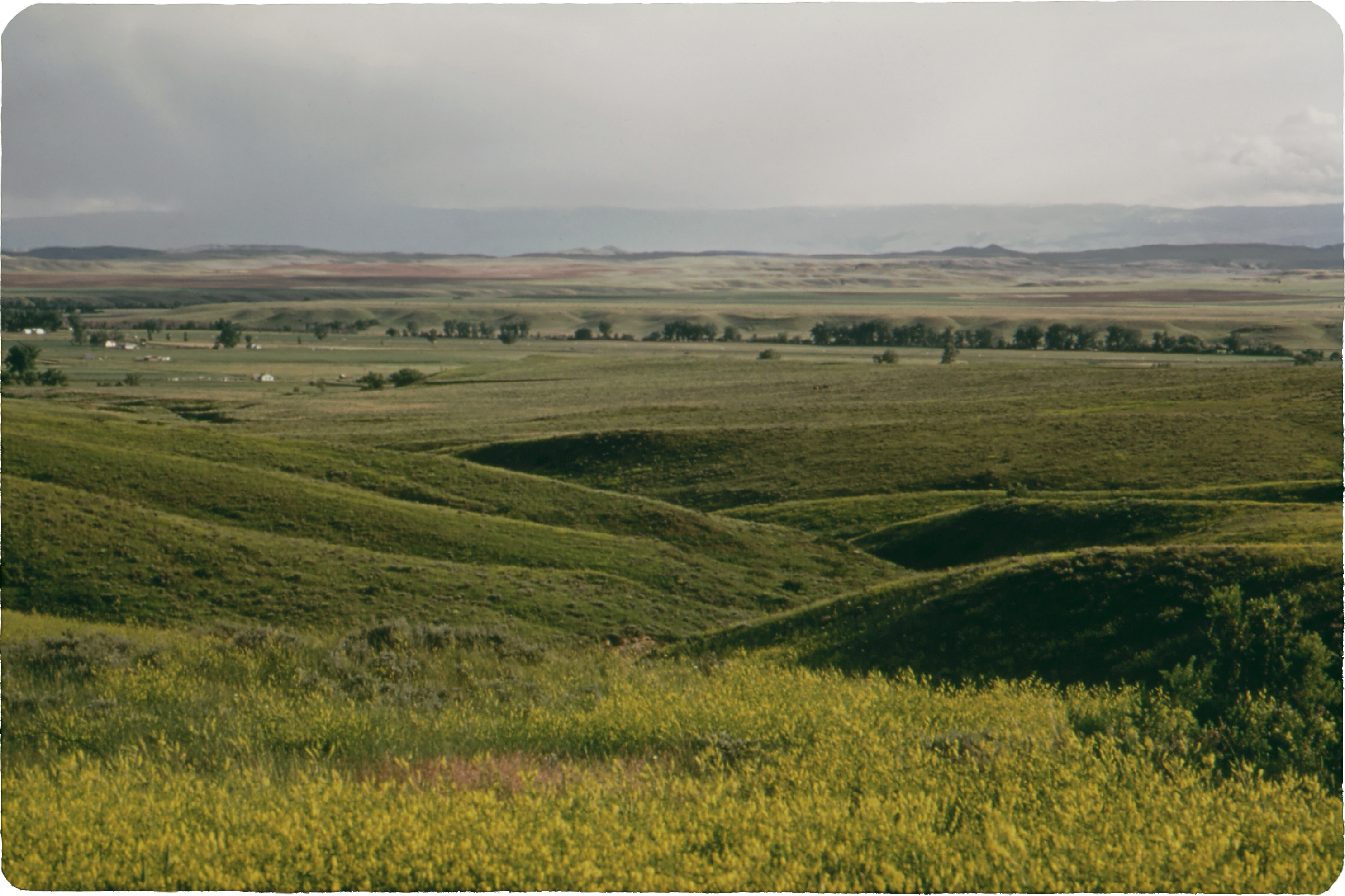 Ranch lands and prairie near Little Bighorn Battlefield National Monument